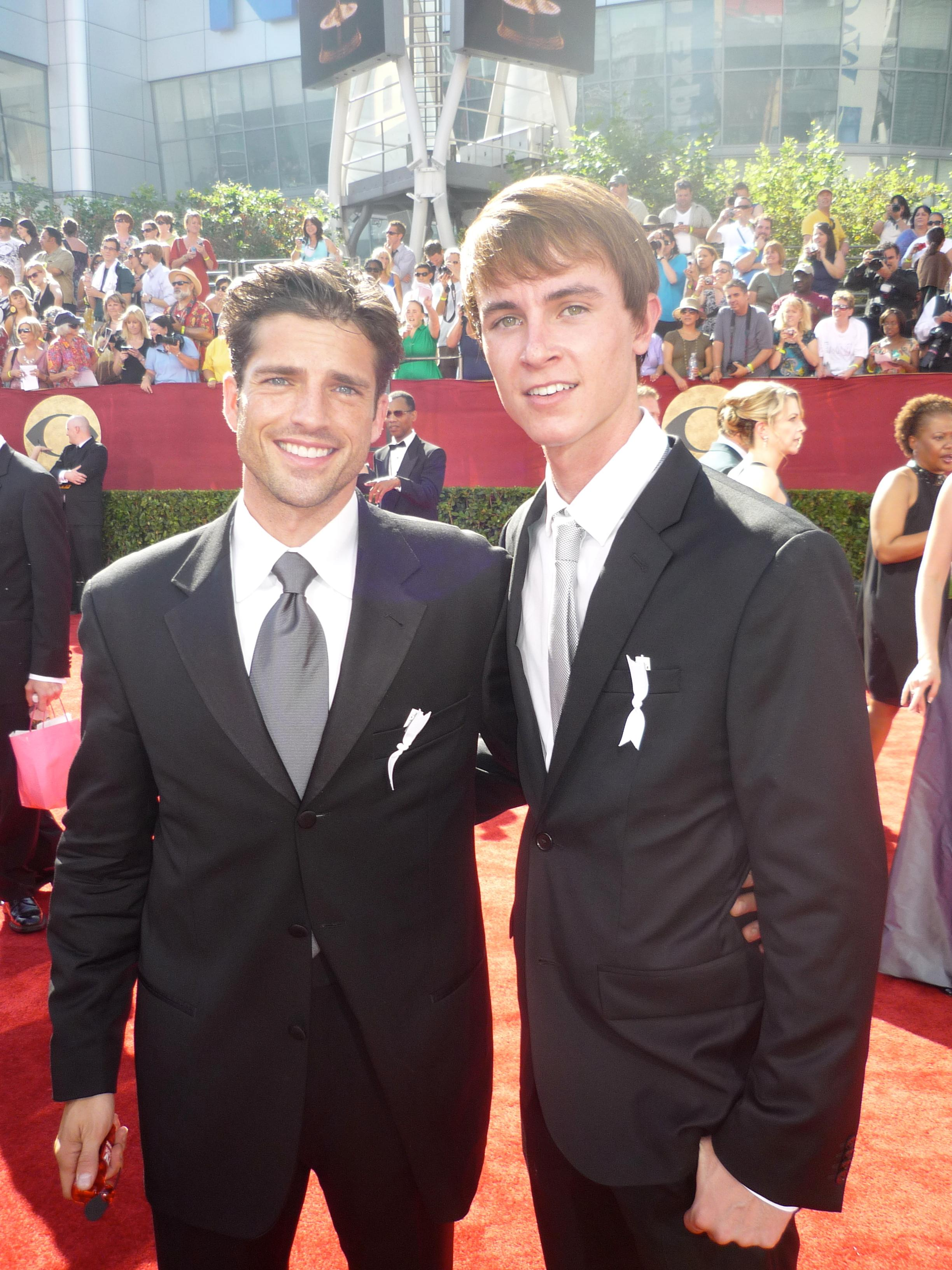 Actors Scott Bailey and Ryan Kelley at the 2009 Primetime Emmy Awards.